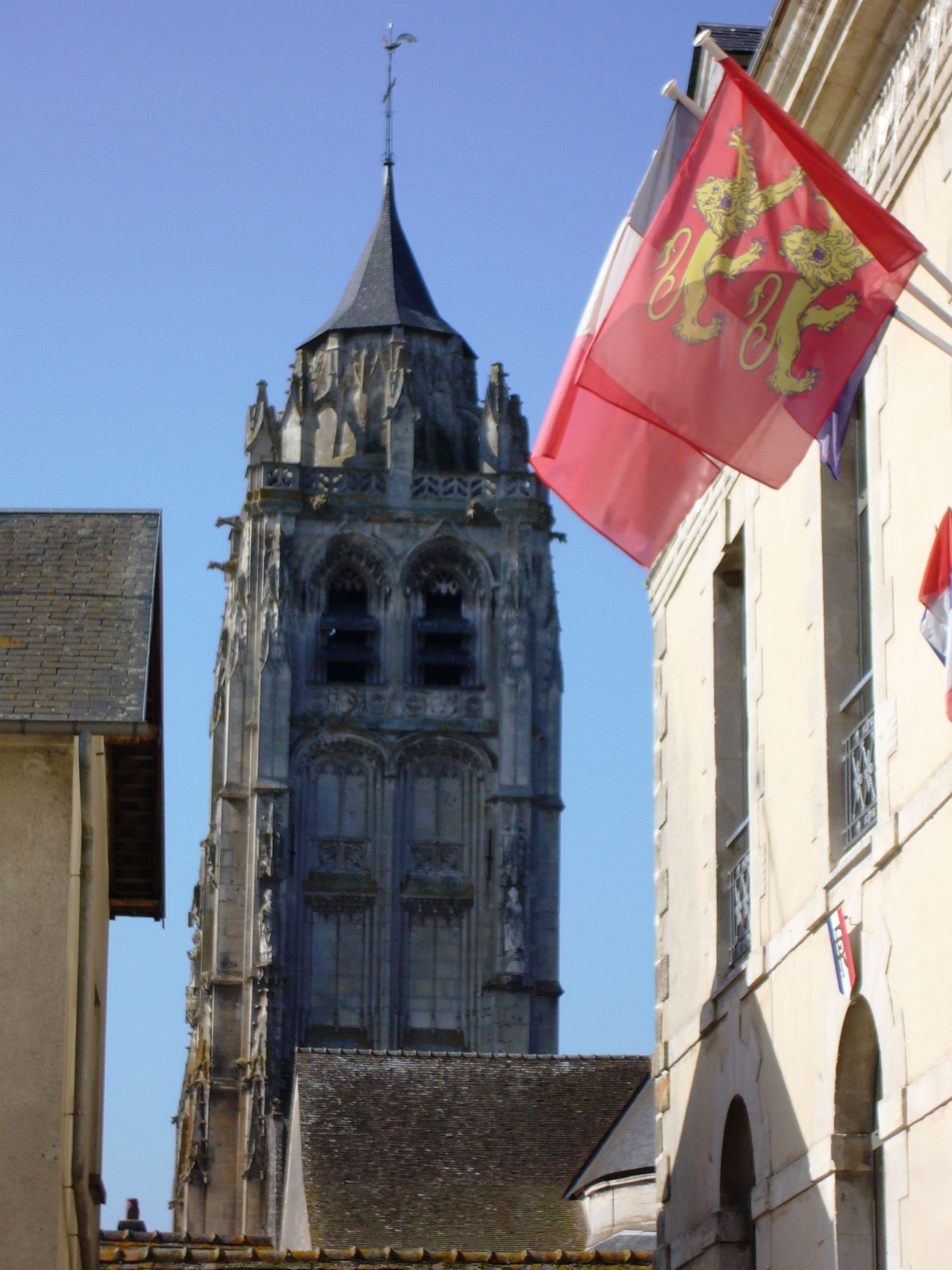 Norman and French flags